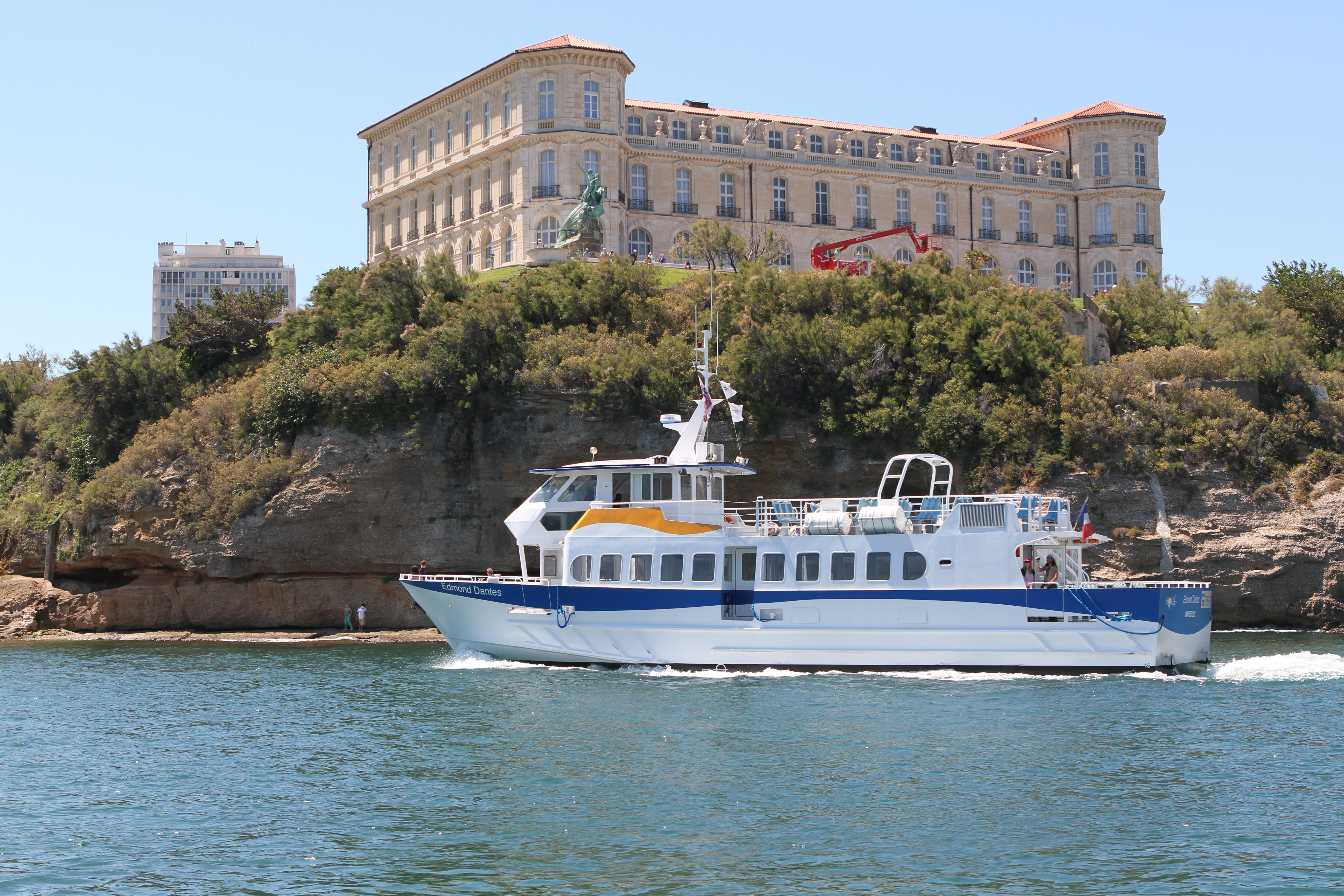 Ship managed by the Urban Community of Marseille Provence Métropole to serve the main islands of the Frioul archipelago. In background, we can see the Palais du Pharo (Bouches-du-Rhône, France)